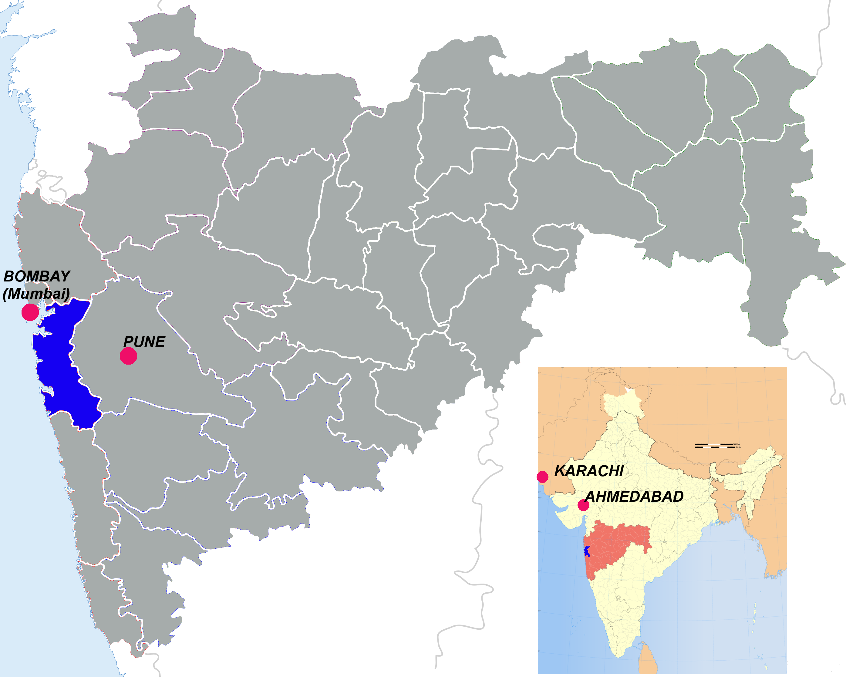 Bene Israel (Mumbai jews) settlements map. In blue the original settlement district (Raigard). In red, the main cities where Bene Israel migrate during the XIXe and XXe centuries.